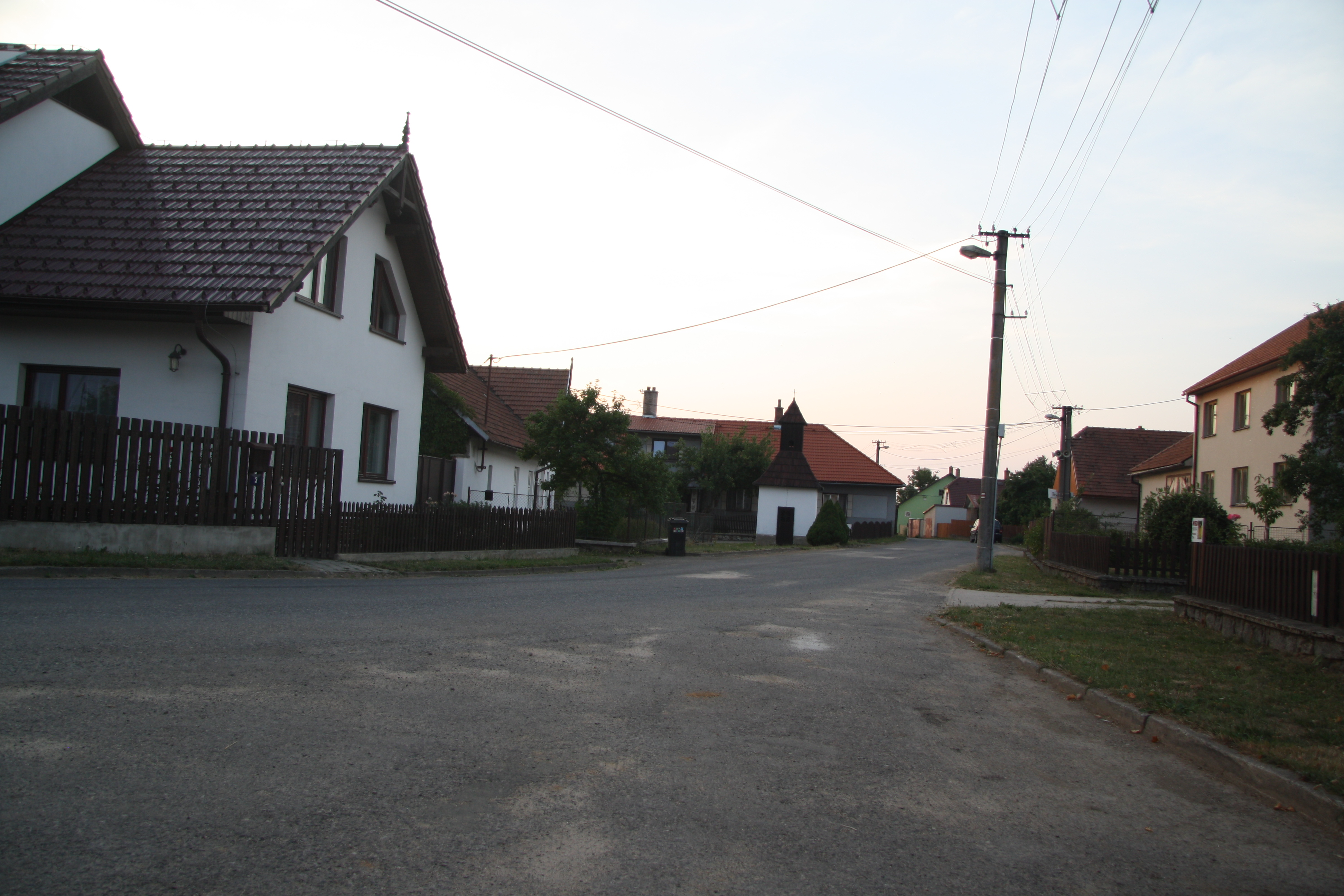 Center of Závist, Lavičky, Žďár nad Sázavou District.